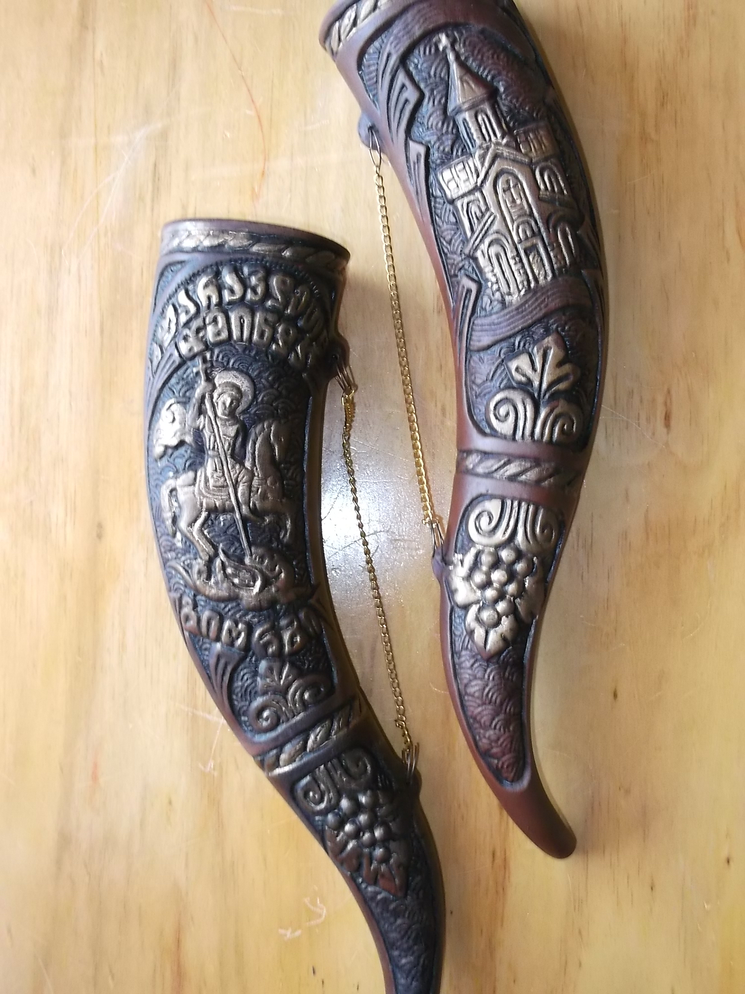 Kantsi en terre cuite